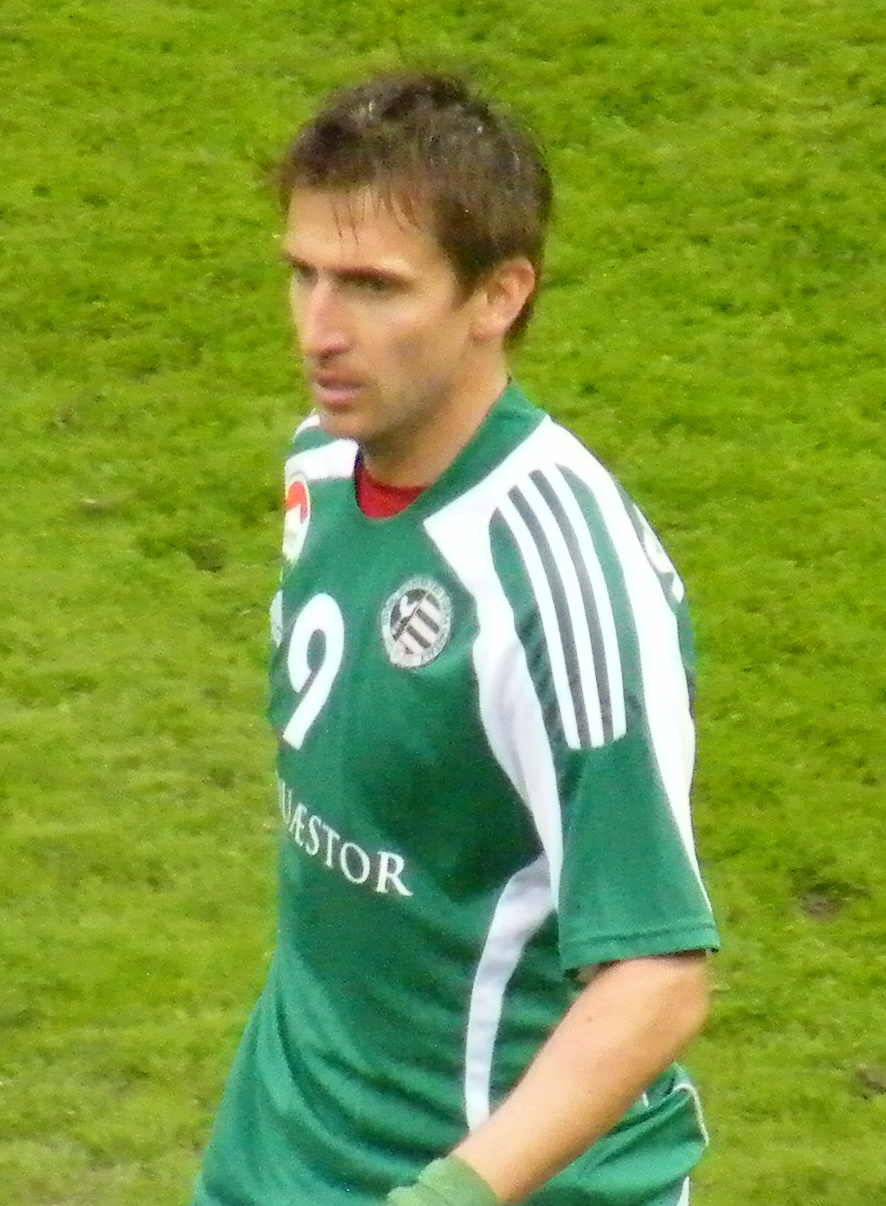 Ottó Szabó Hungarian football player